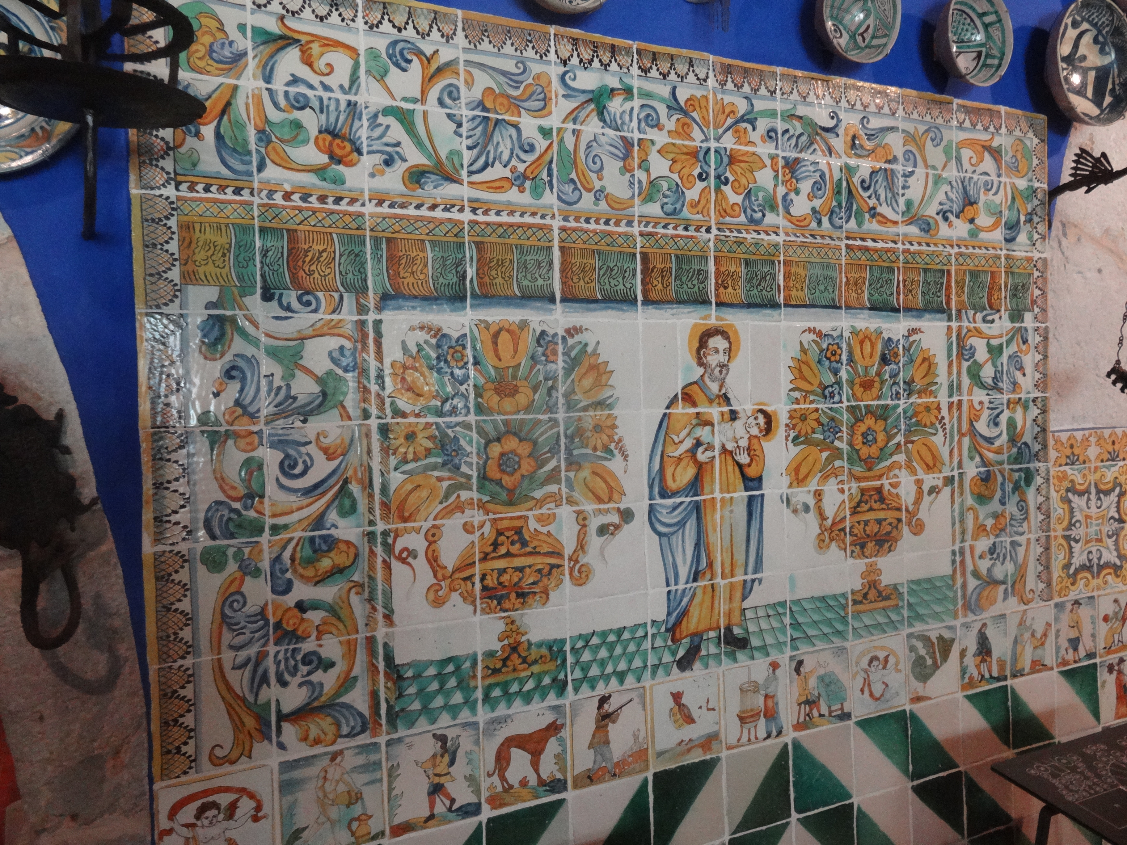 Lower floor of Cau Ferrat Museum, in Sitges.